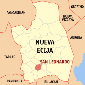 Map of Nueva Ecija showing the location of San Leonardo